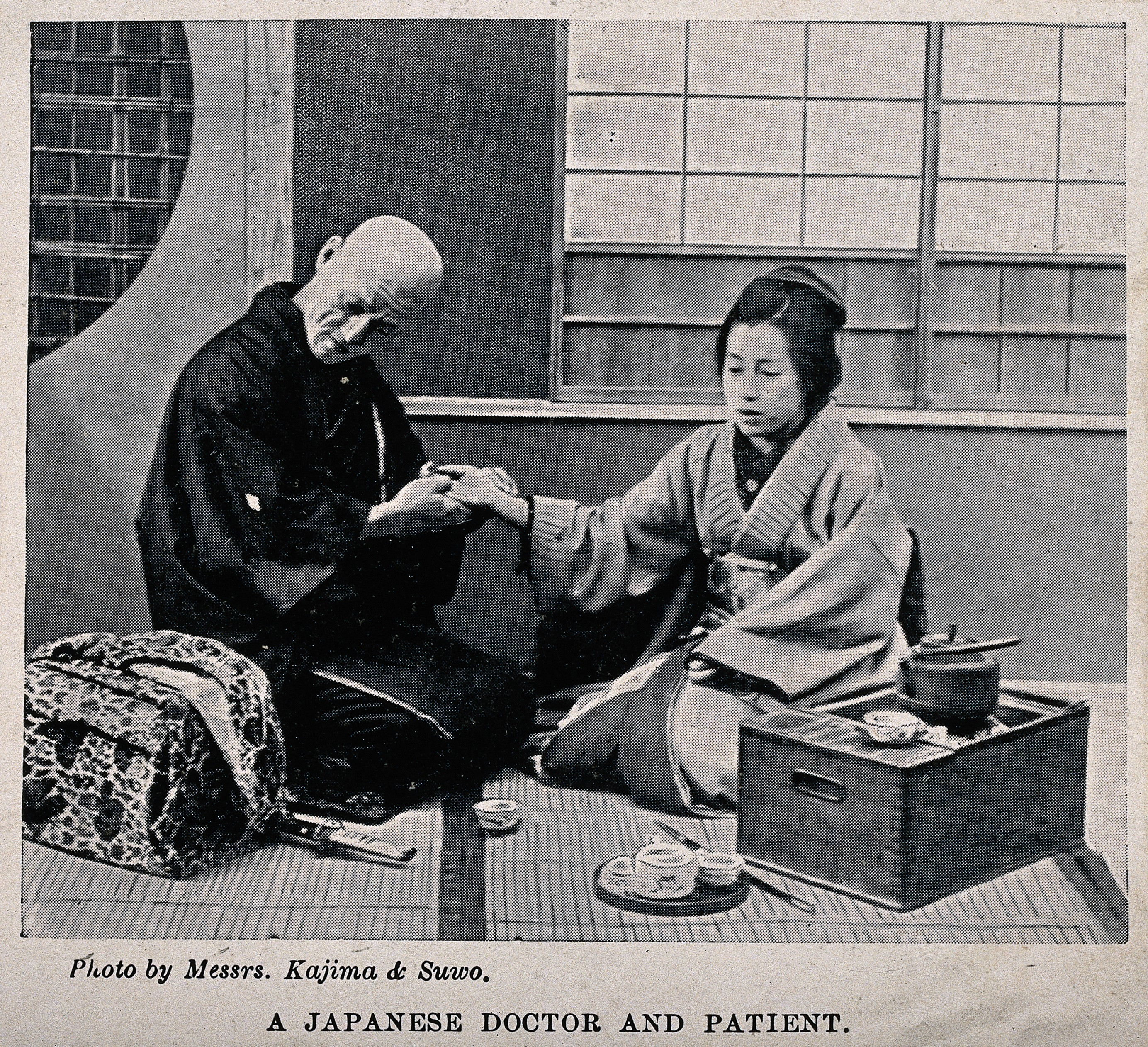 A Japanese doctor taking the pulse of a patient. Halftone after a photograph by Messrs. Kajima & Suwo. Iconographic Collections Keywords: Messrs. Kajima & Suwo.